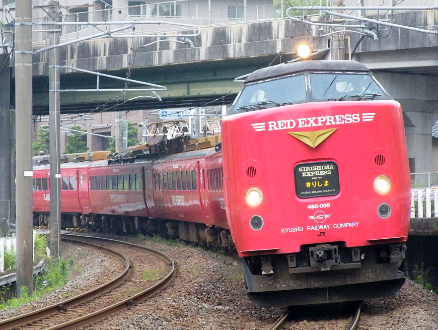 Limited Express KIRISHIMA sometimes consists of 5 cars.